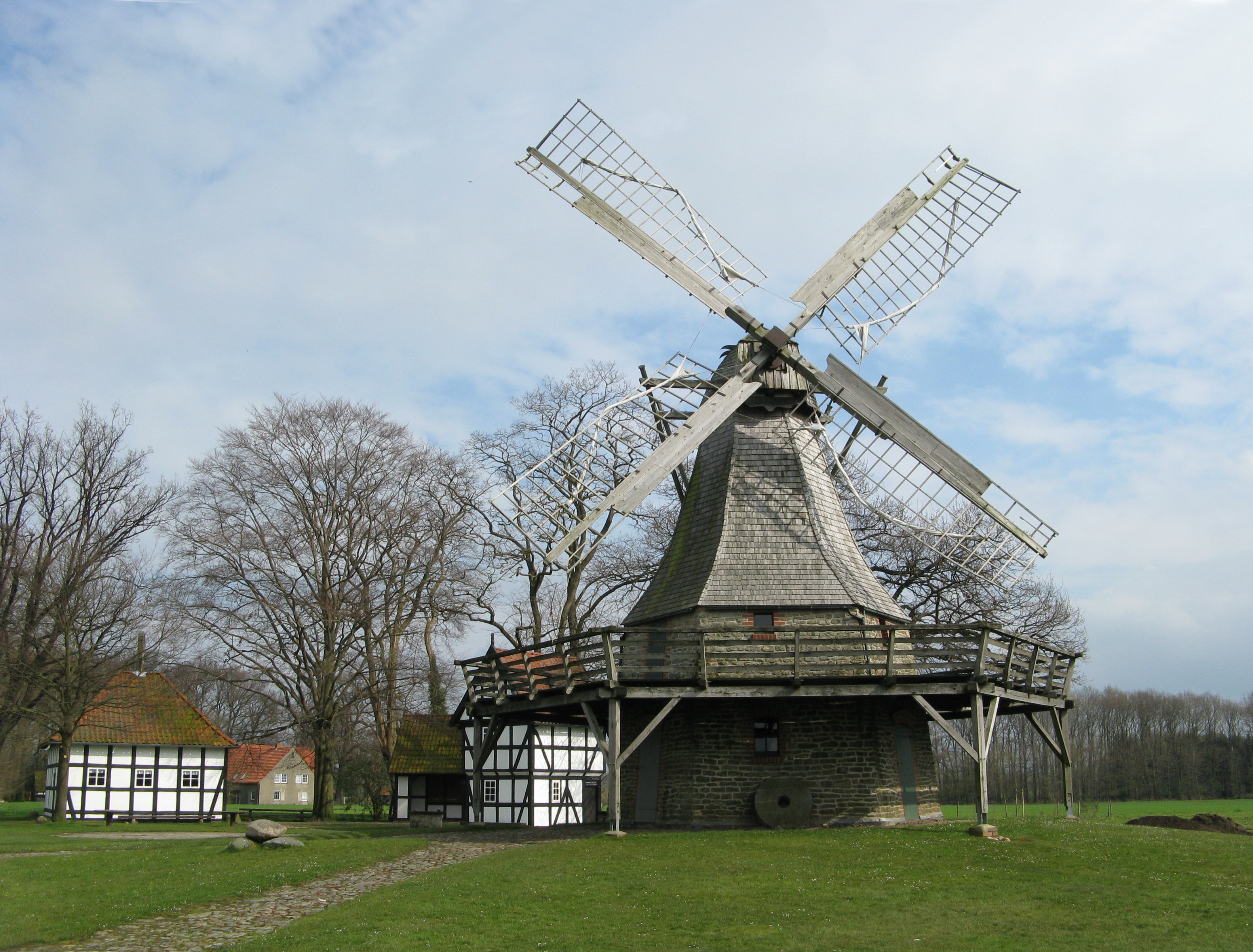 Smock windmill in Stemwede-Levern, District of Minden-Lübbecke, North Rhine-Westphalia, Germany. This image shows a heritage building in Germany, located in the North Rhine-Westphalian municipality Stemwede (no. 020).